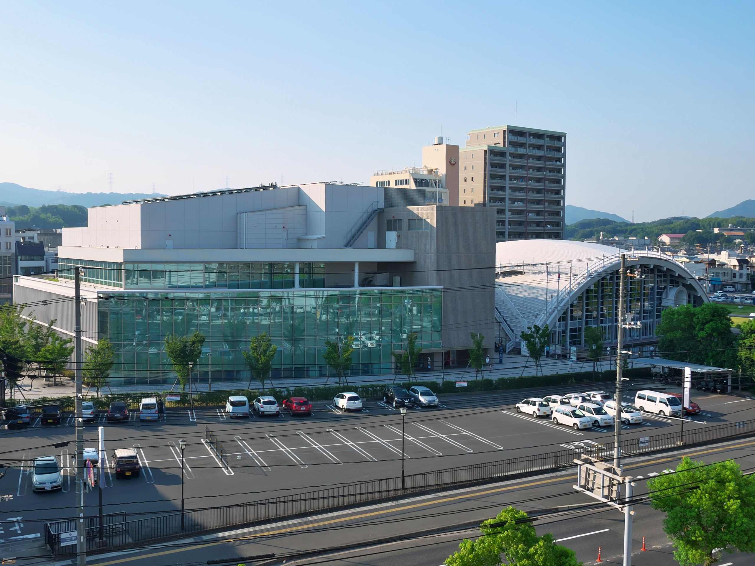 Kojima Citizens Exchange Center in Kojima, Kurashiki, Okayama prefecture